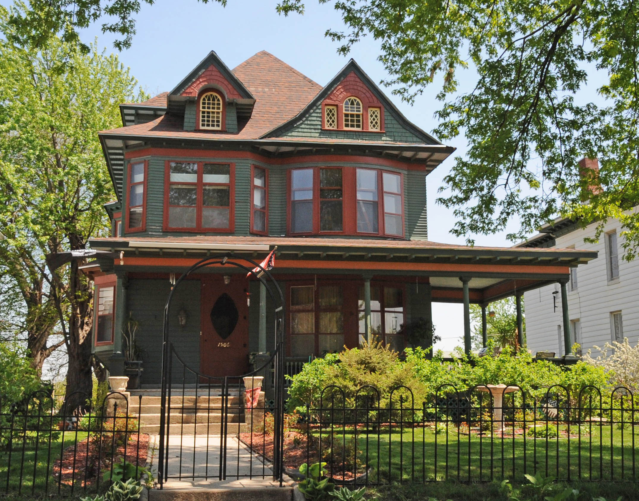 1890-1910 HISTORIC MANSIONS OF WEALTHY PEOPLE; GEORGE HL BOGUE HOUSE - 1885